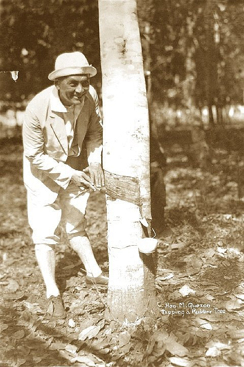 Philippine President Manuel L. Quezon, tapping rubber in Basilan's pioneering rubber plantation